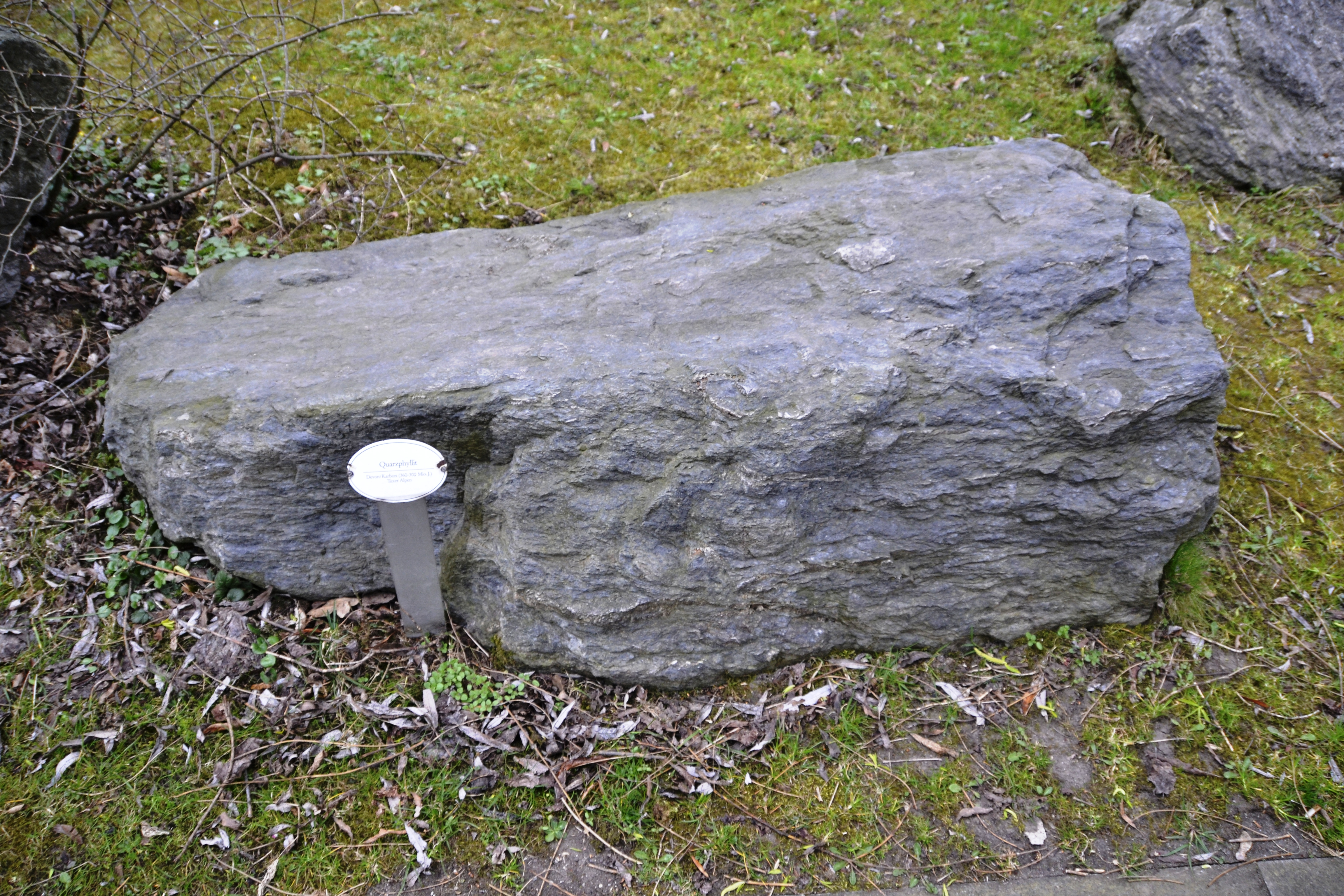 The geological public collection at the Alpines Museum in Munich.